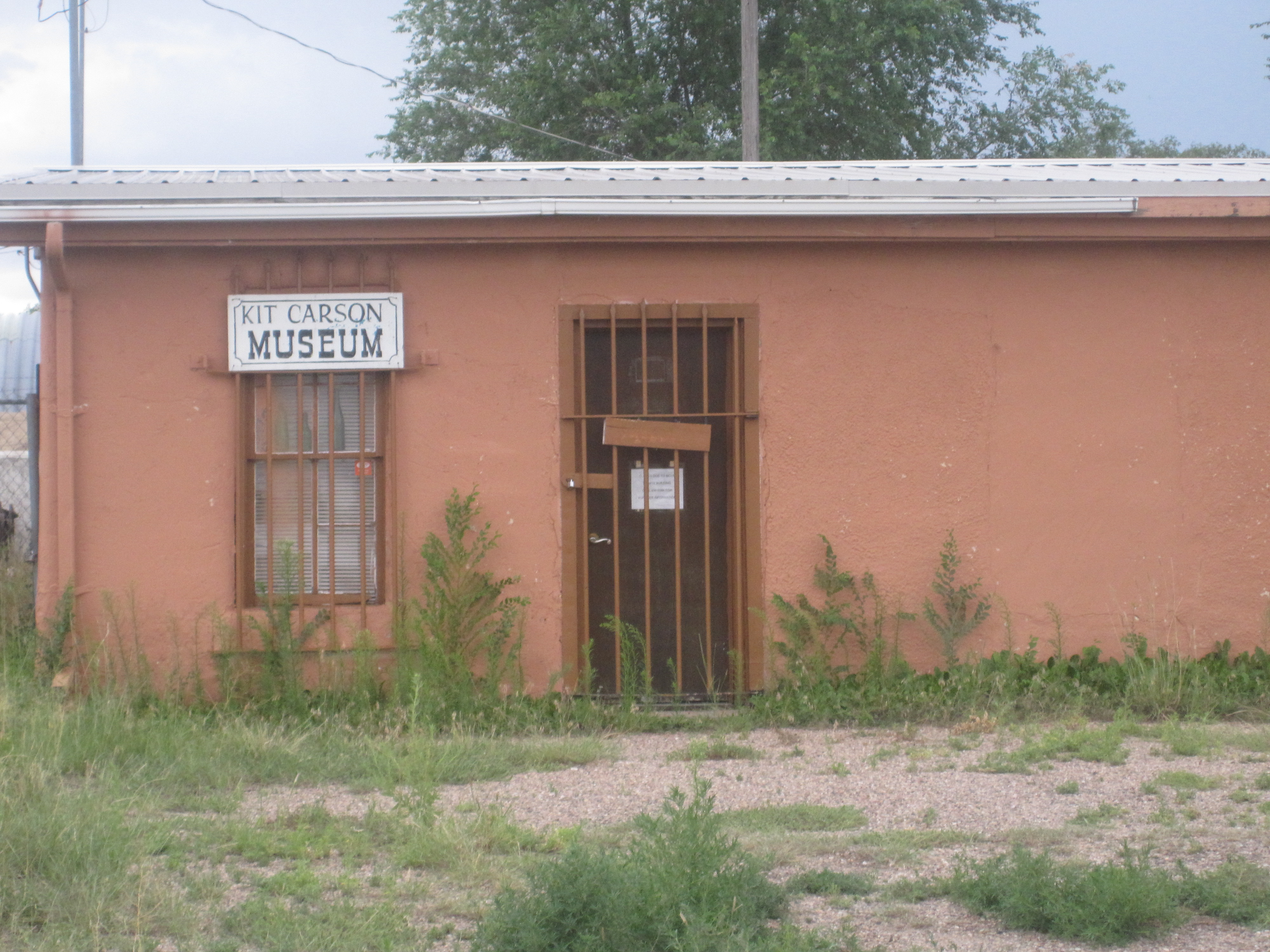 I took photo with Canon camera in Las Animas, CO.